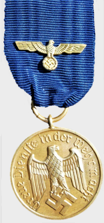 12 year long service award (Wehrmacht) (1936-1945). Obverse.